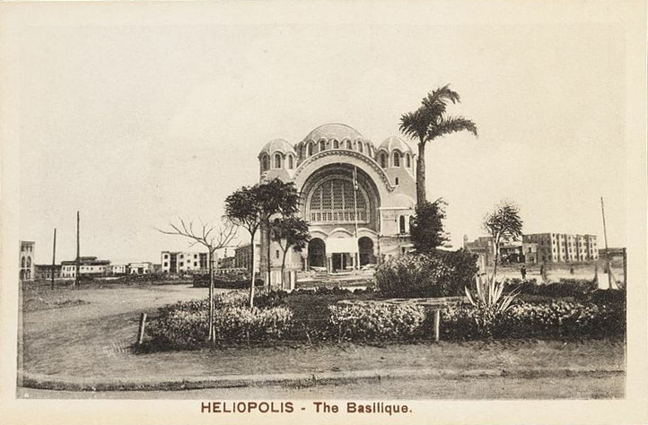 Cathedral of Our Lady of Heliopolis - Basilique Church, El-Korba, Heliopolis, Cairo, Egypt. Large church surrounded by streets and vegetation